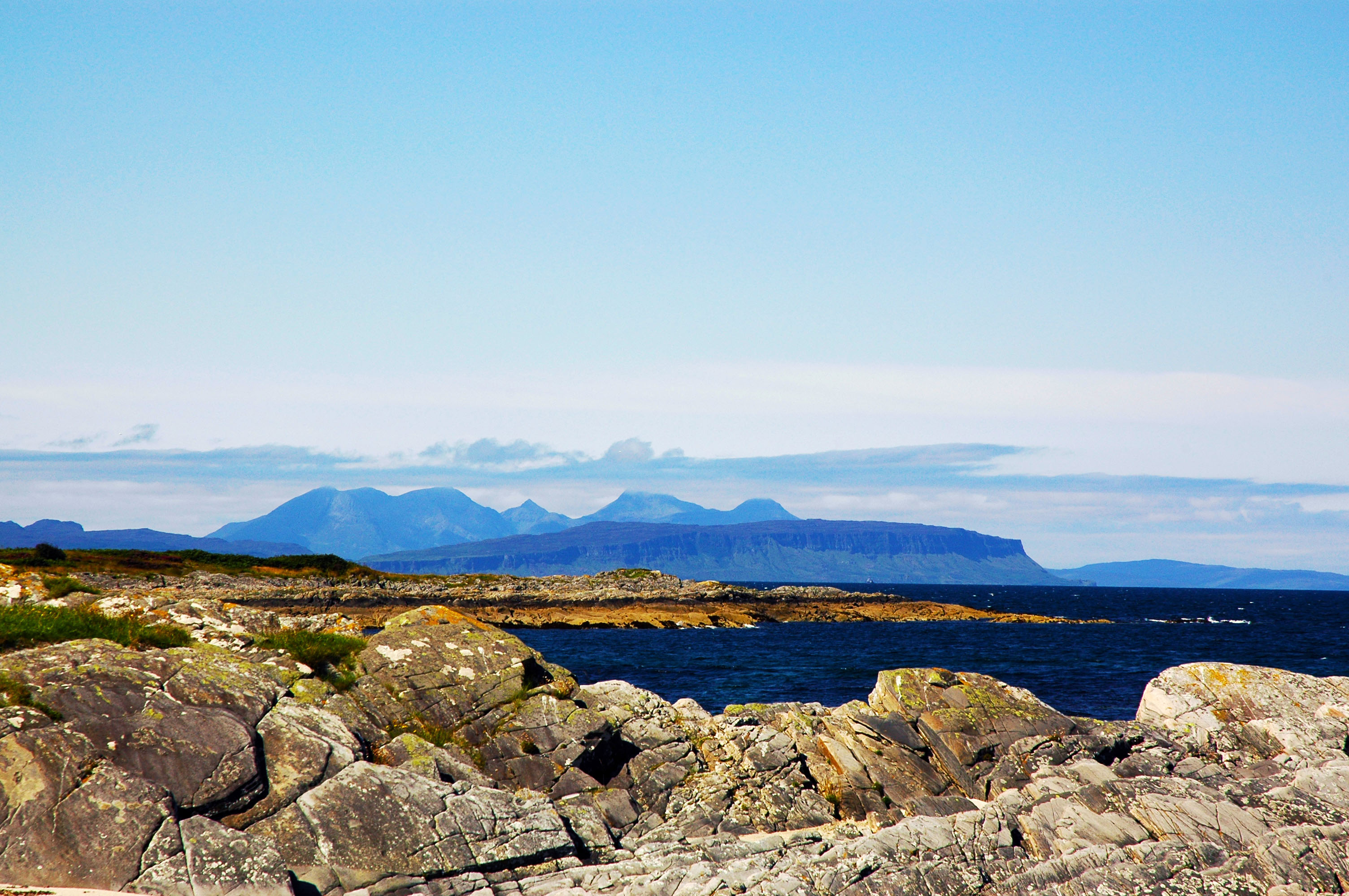 A distant view of Eigg and Rum from the mainland